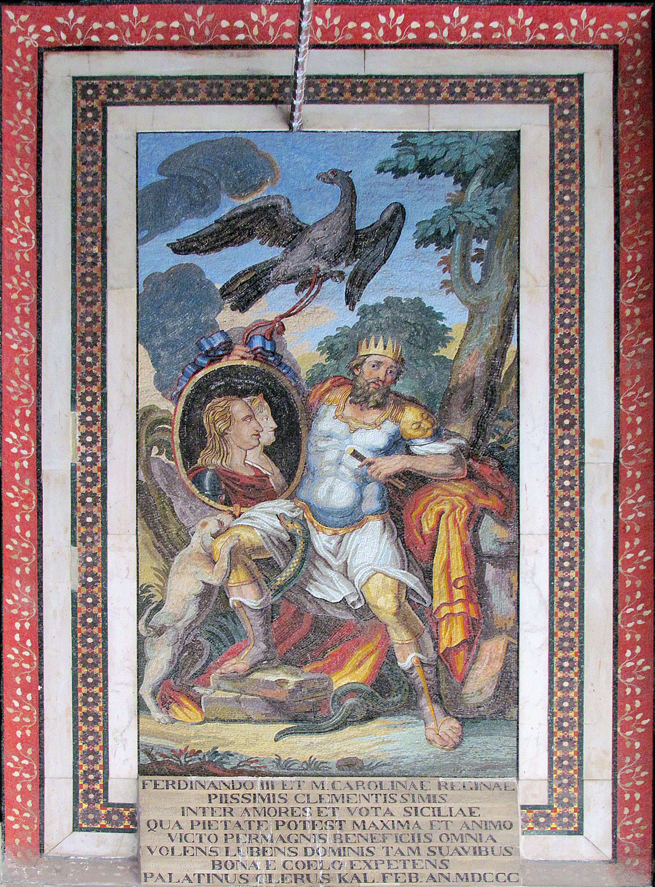 Mosaic of Genius Palermo (Cappella Palatina, Palermo)